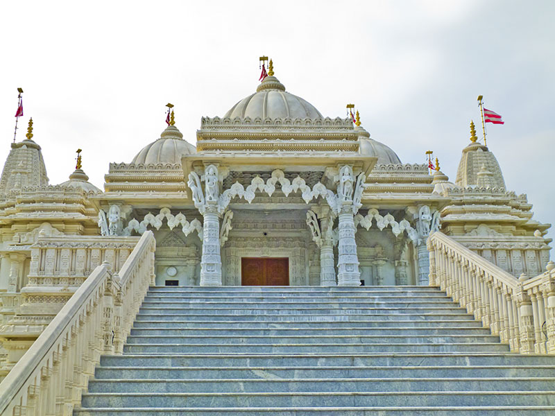 OTRS pending